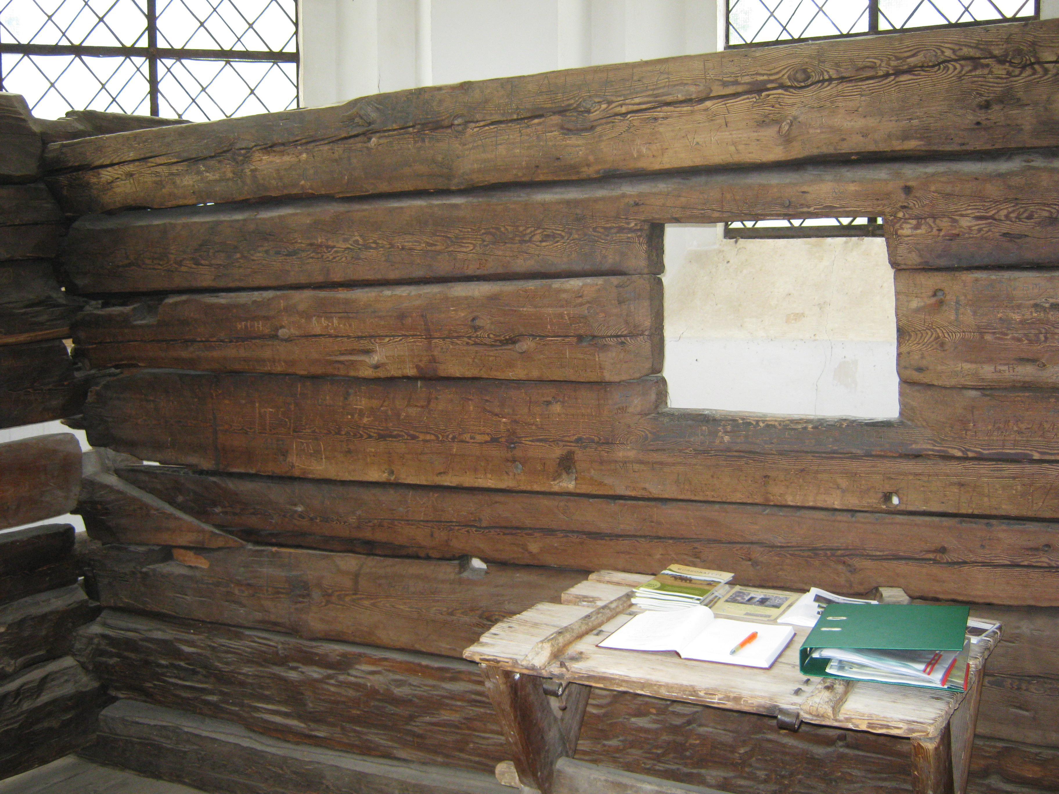 St. Henry's Chapel, Kokemäki, Finland.